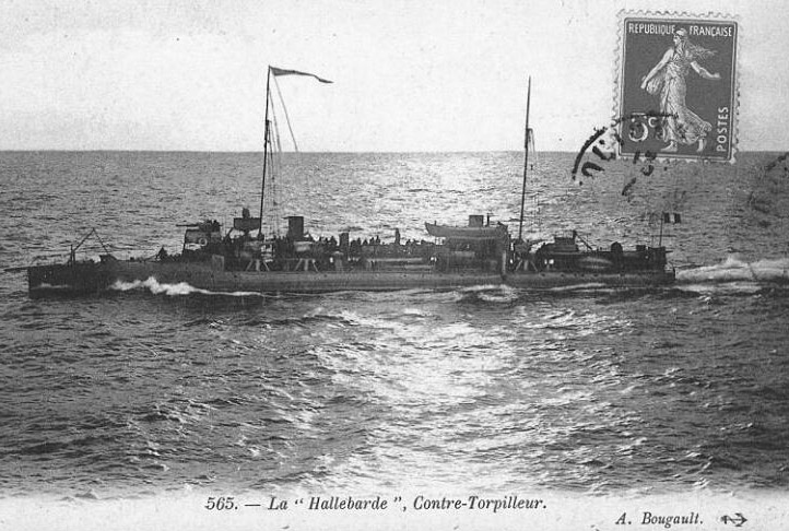 French destroyer Hallebarde